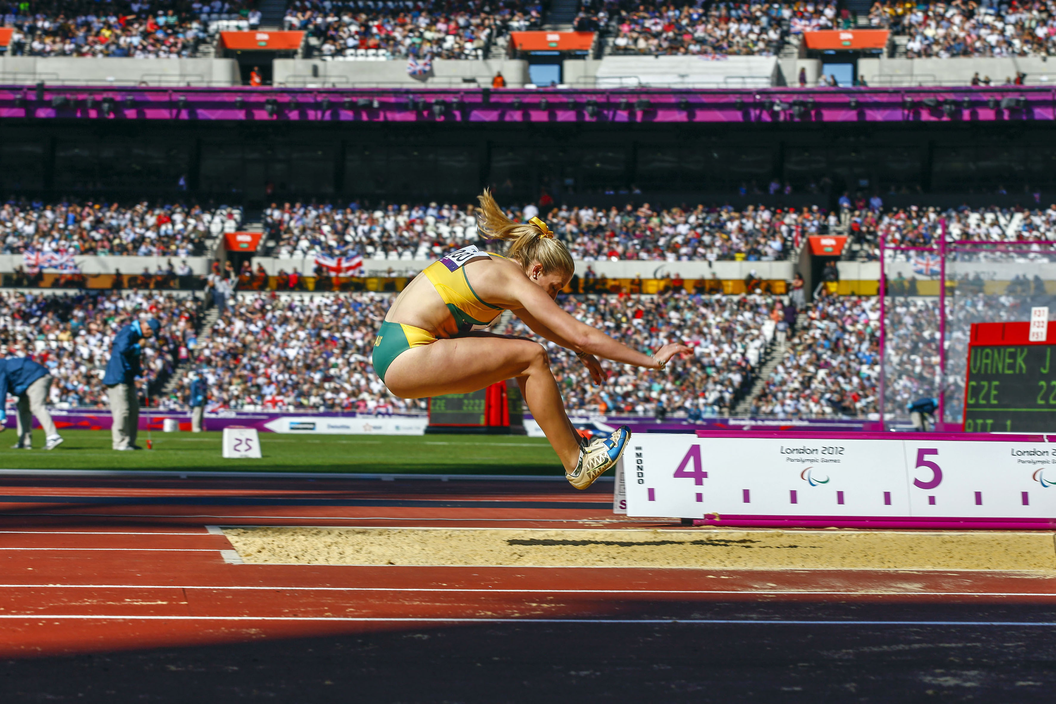 Photograph of Australian Paralympic team member Katy Parrish at the 2012 Summer Paralympic Games in London